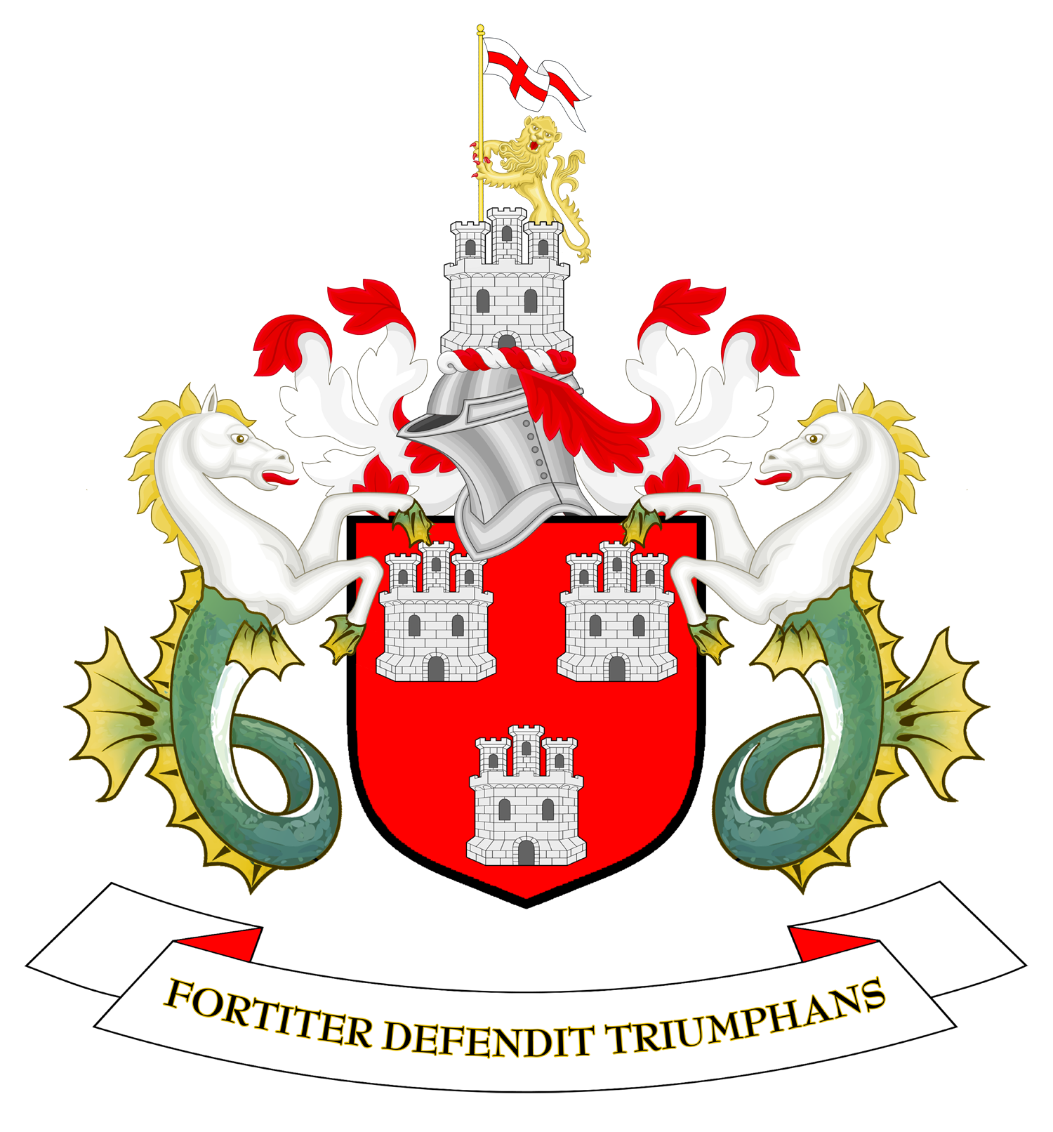 The Coat of arms of Newcastle upon Tyne City Council, the local government authority for the City of Newcastle upon Tyne, in Tyne and Wear, England. The blazon is: *ARMS: Gules three Castles triple towered Argent.*CREST: On a Wreath of the Colours a Castle as in the Arms issuant therefrom a demi Lion guardant supporting a Flagstaff Or flying therefrom a forked Pennon of the Arms of Saint George.SUPPORTERS: On either side a Sea Horse proper crined and finned Or.